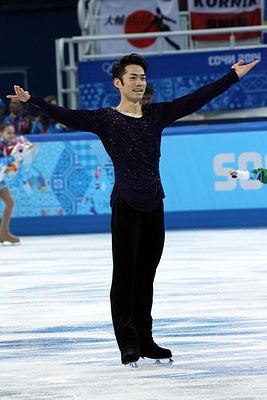 Daisuke Takahashi during his free program at the 2014 Winter Olympics.